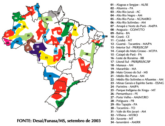 Map Indigenous Health District of Brazil